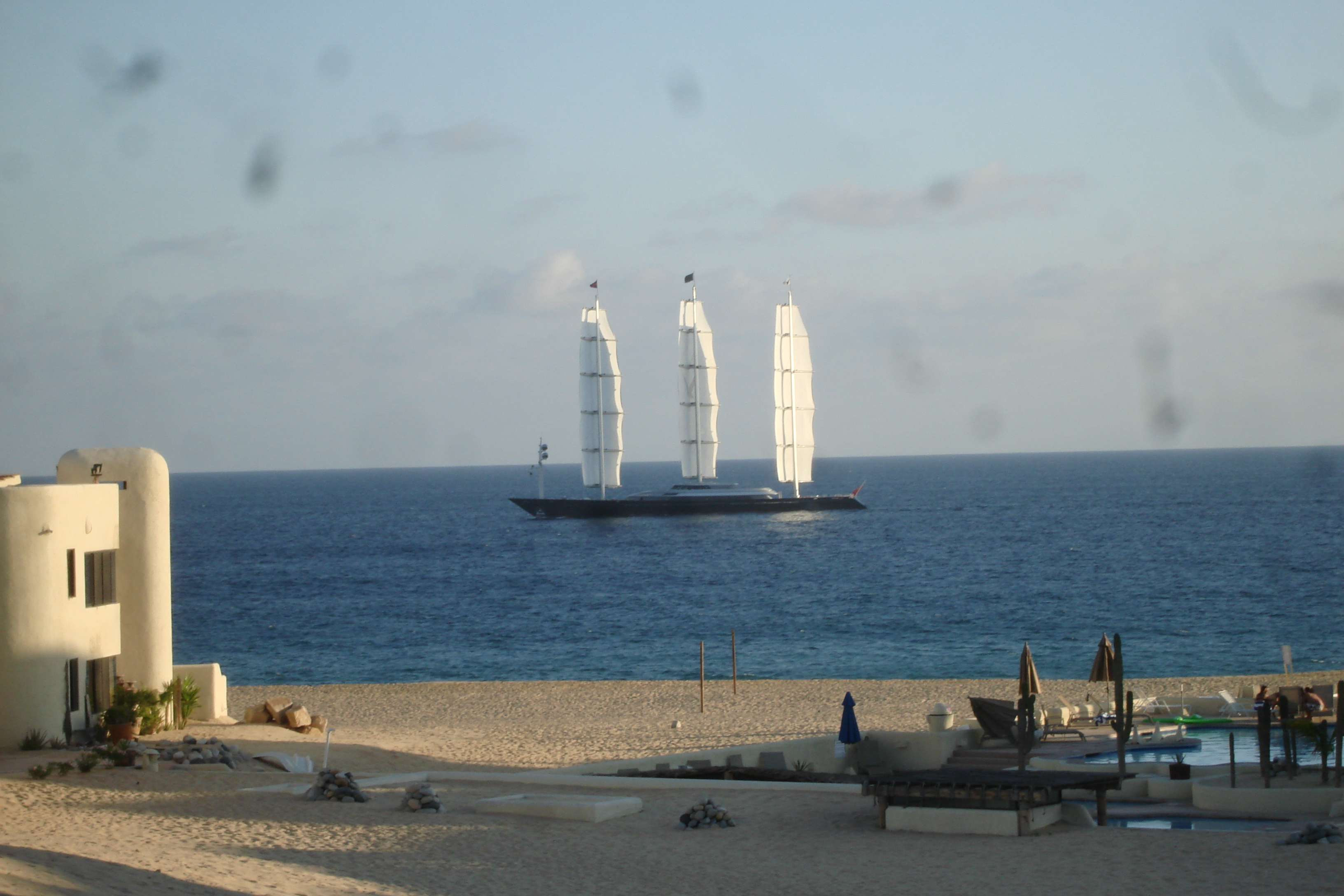 Maltese Falcon sailing by Terrasol Beach Cabo San Lucas B.C.S. Mexico